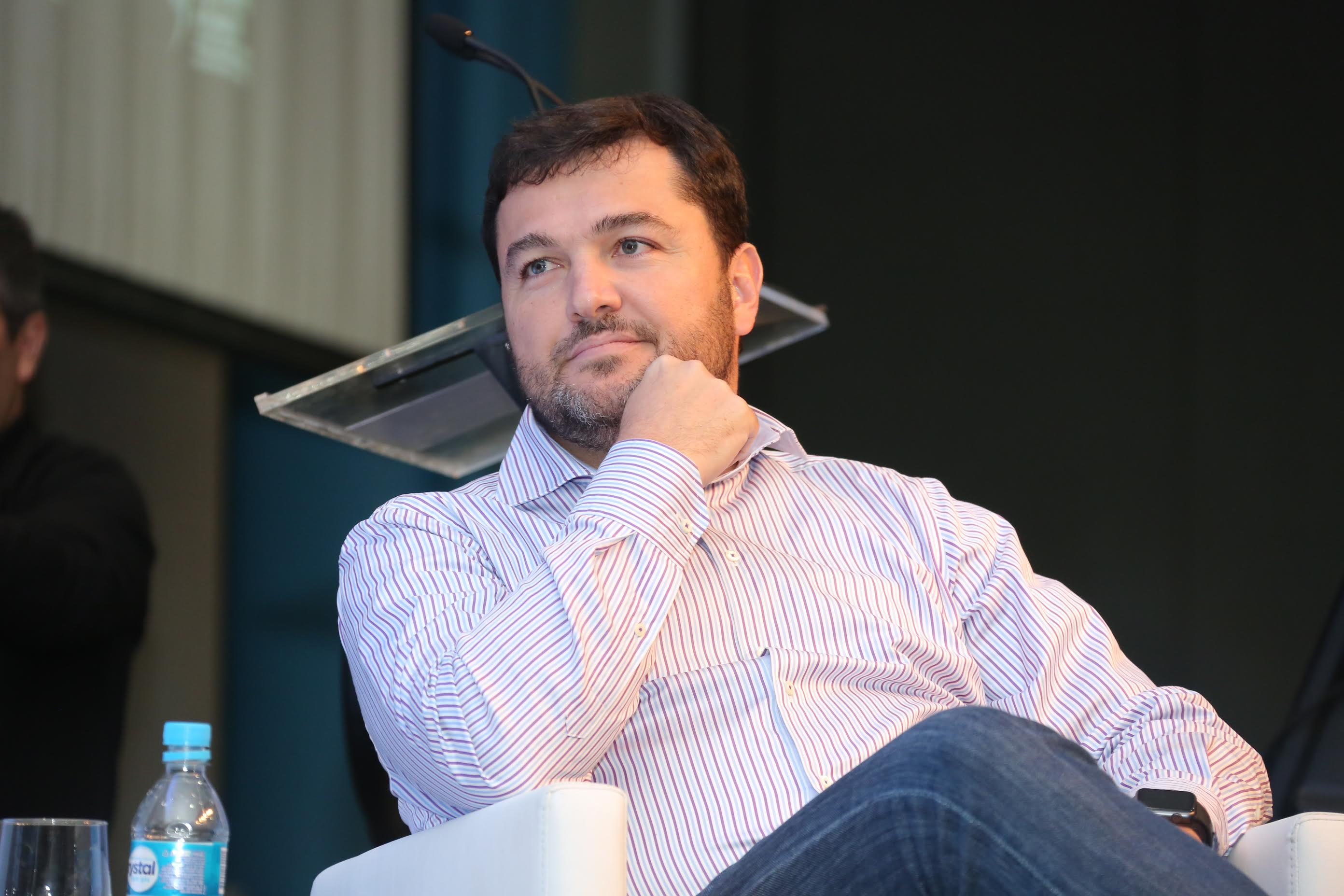 Photo of Ricardo Viana Vargas